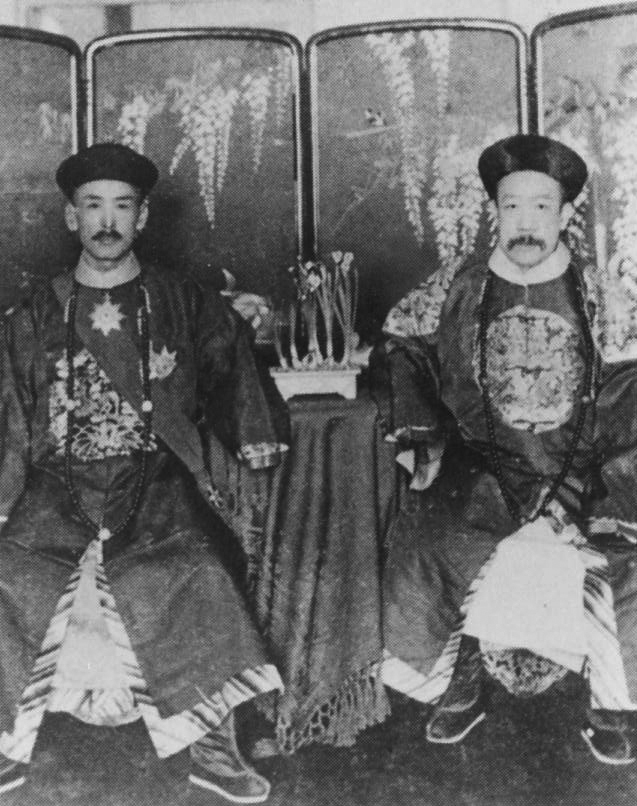 Kawashima Naniwa with Aisin Gioro Shanqi (Prince Suzhong).